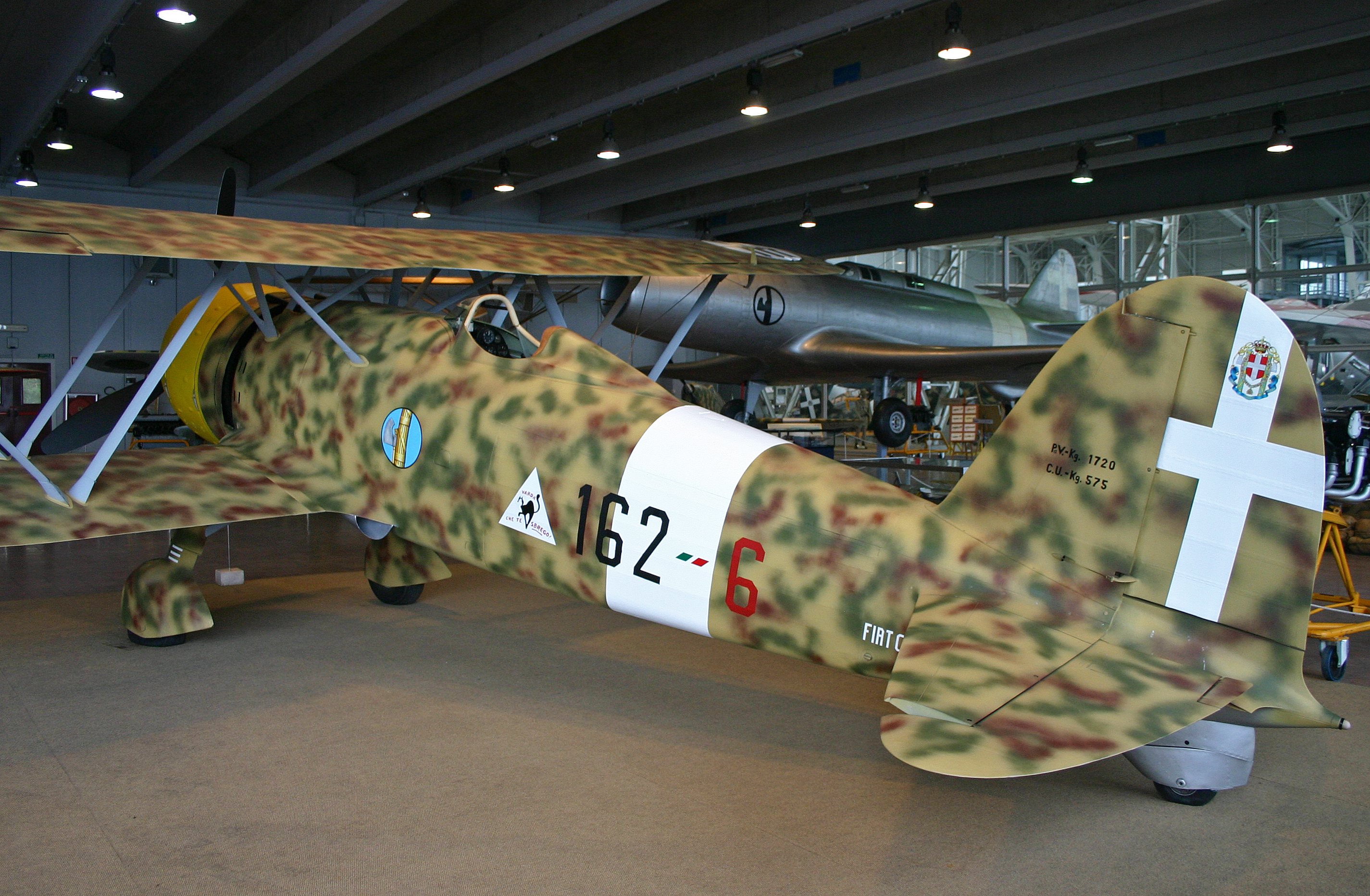 Displayed in Hangar VELO. Restored in non-genuine Italian AF markings as MM5643. Actually ex Swedish AF 2539 and SE-AOP. msn 917